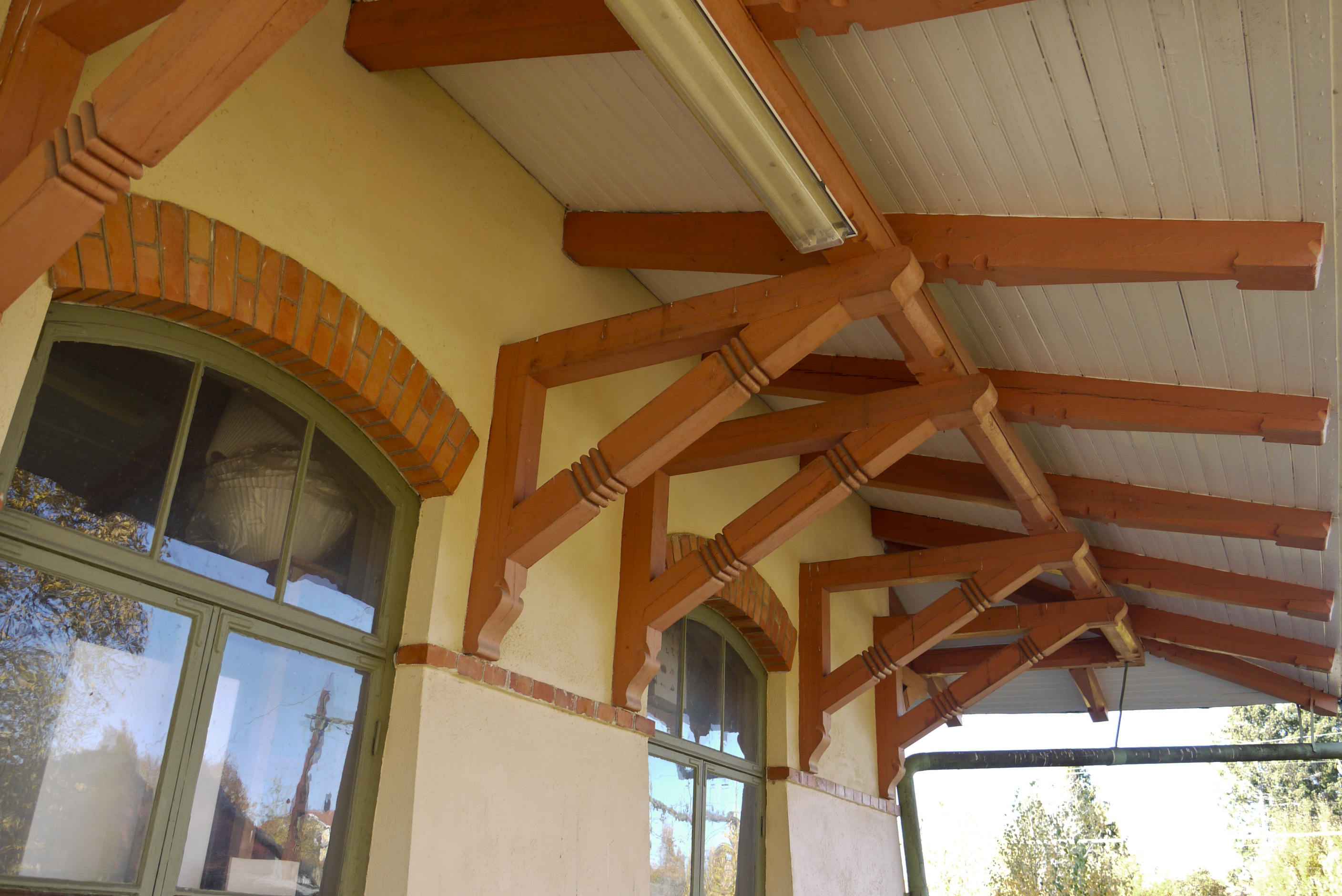 Former rail-way station in Malmslätt, Linköping, Sweden. Roof construction.